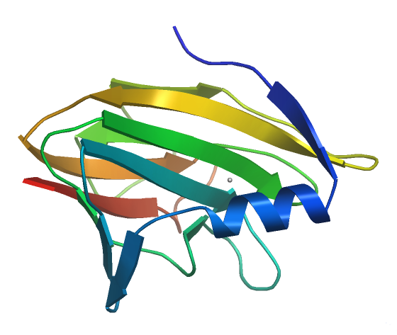 Cartoon representation of the molecular structure of protein registered with 2cak code.